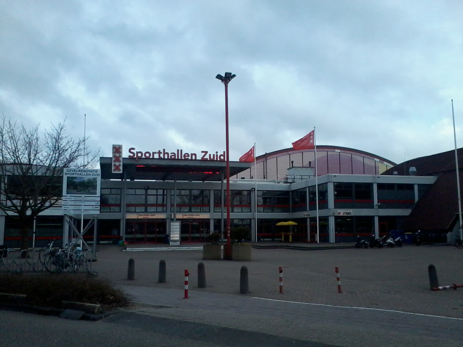 Sporthallen Zuid, municipal sports centre in Amsterdam